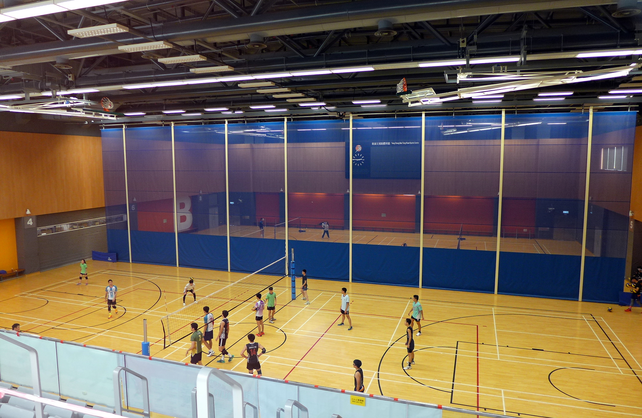 Tung Chung Man Tung Road Sports Centre Multi Purpose Arena